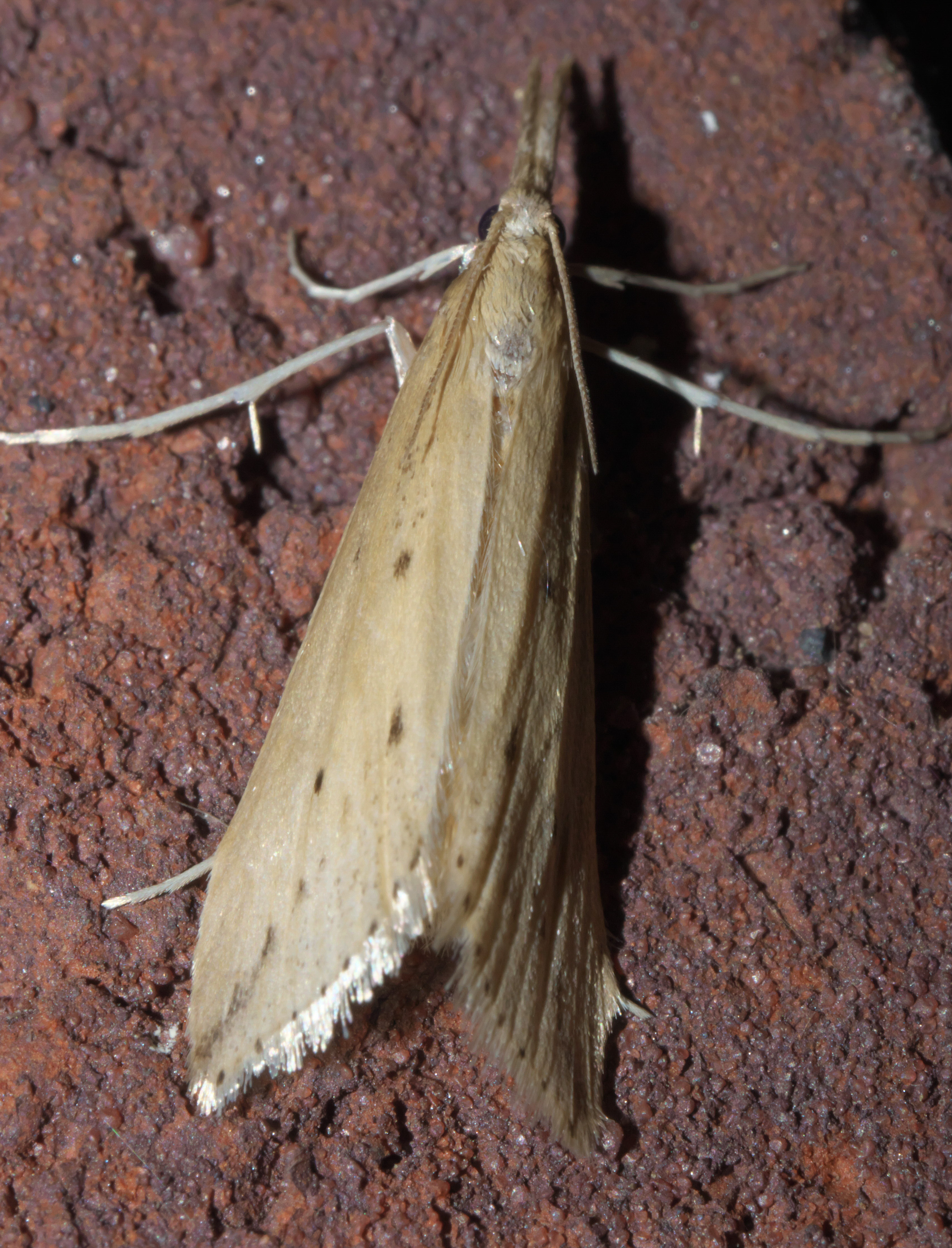 Donacaula, Family: Crambid Snout Moths